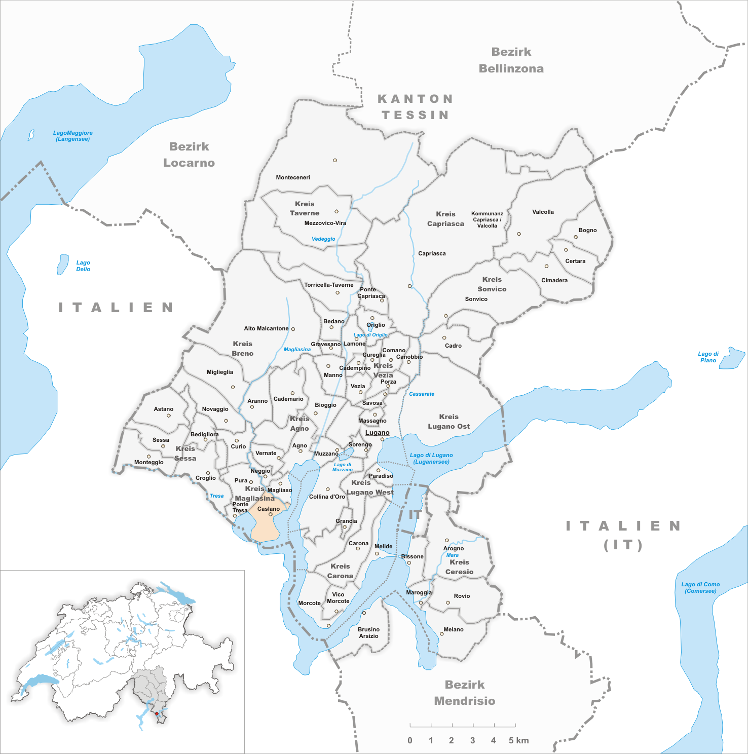 Municipality Caslano